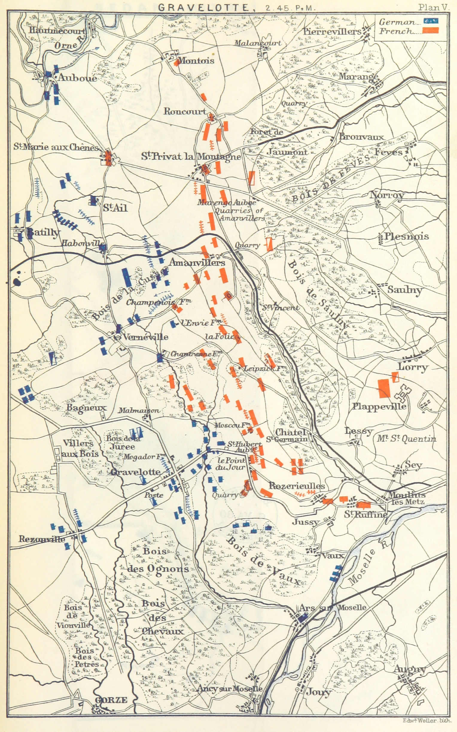 View this map on the BL Georeferencer service. Image taken from: Title: "The Campaign of Sedan: the downfall of the Second Empire. August-September, 1870, etc" Author: HOOPER, George - of Kensington Shelfmark: "British Library HMNTS 9079.g.8." Page: 387 Place of Publishing: London Date of Publishing: 1887 Publisher: G. Bell & Sons Issuance: monographic Identifier: 001728602 Explore: Find this item in the British Library catalogue, 'Explore'. Download the PDF for this book (volume: 0) Image found on book scan 387 (NB not necessarily a page number) Download the OCR-derived text for this volume: (plain text) or (json) Click here to see all the illustrations in this book and click here to browse other illustrations published in books in the same year. Order a higher quality version from here.